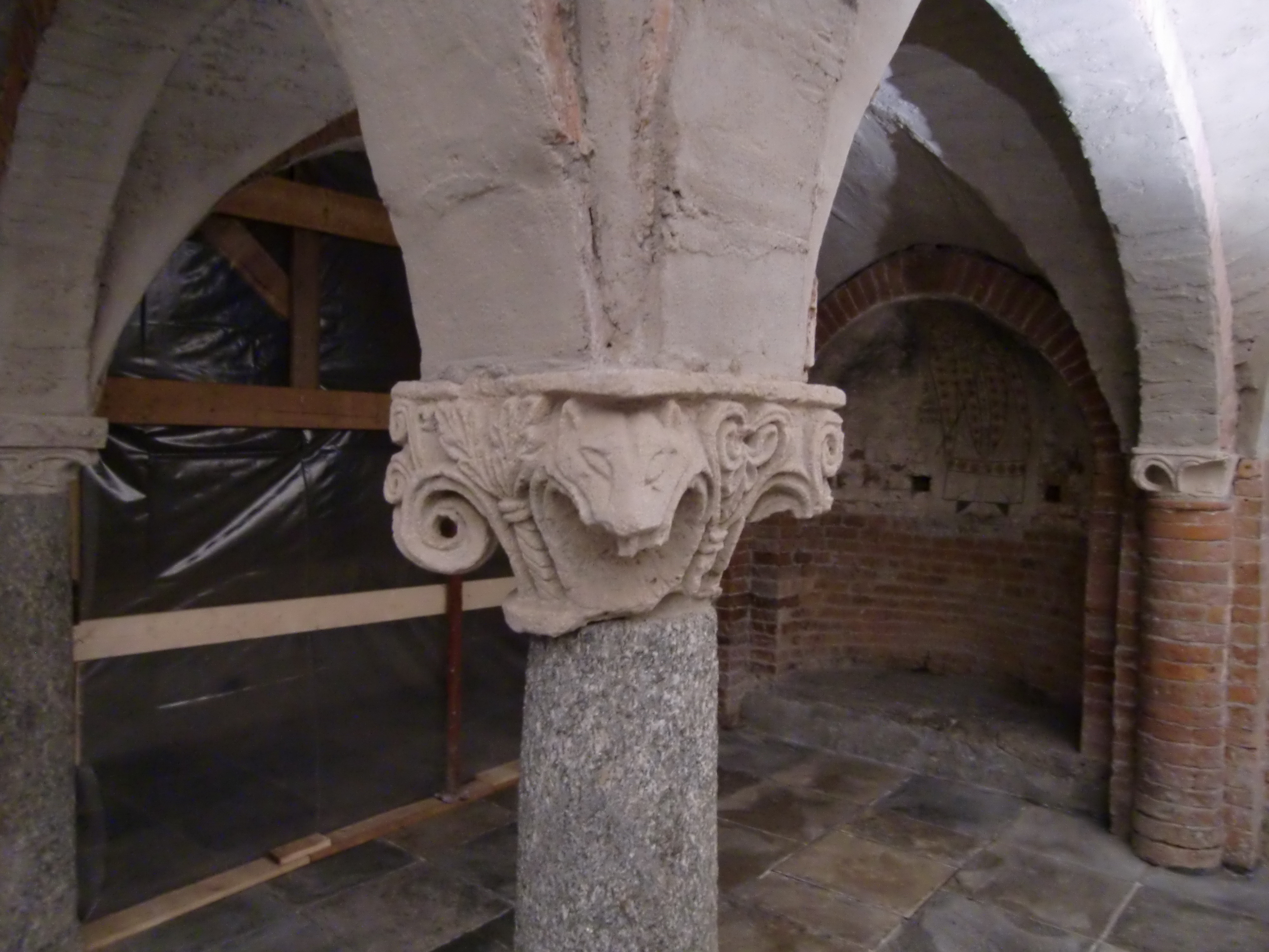 Duomo di Ivrea, The Crypt, a capital, Ivrea, Turin, Italy